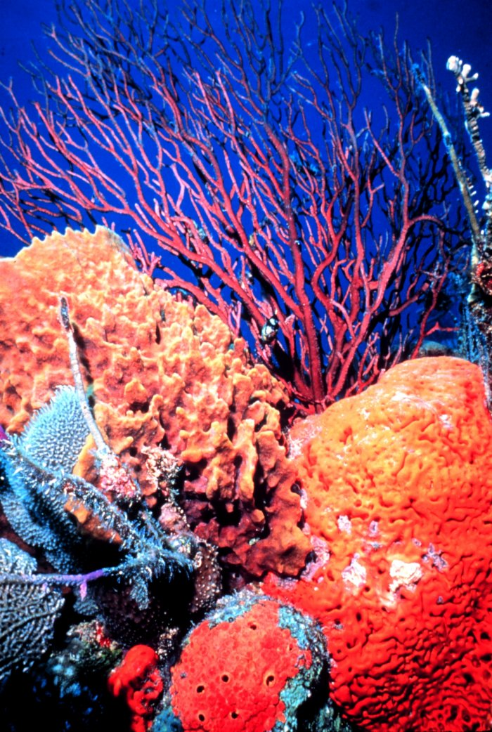 Sponge, coral, and searod in the Florida Keys National Marine Sanctuary, United States.